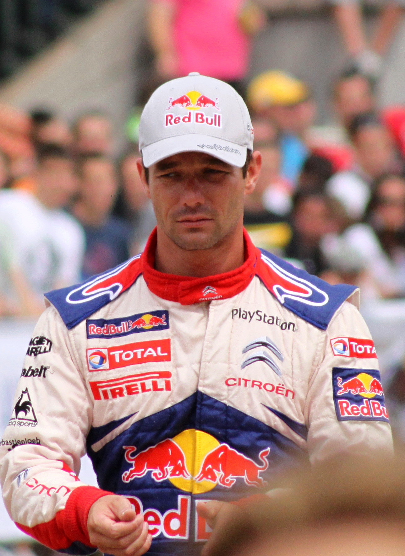 Sébastien Loeb, Sofia, Bulgaria, 4 july 2010